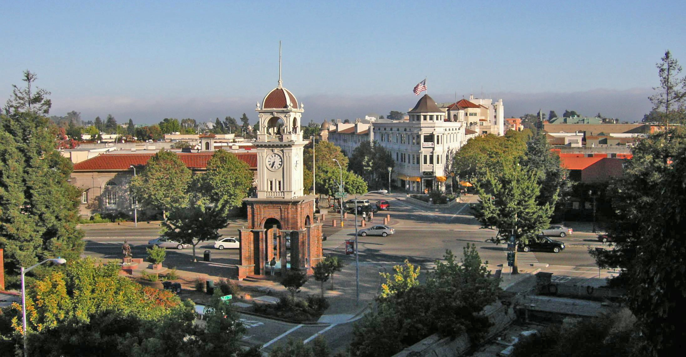 Downtown Santa Cruz, California from Mission Hill